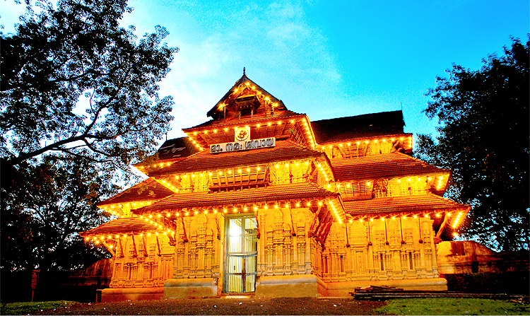 Vadakkumnathan Temple's Thekke Gopura Vathil